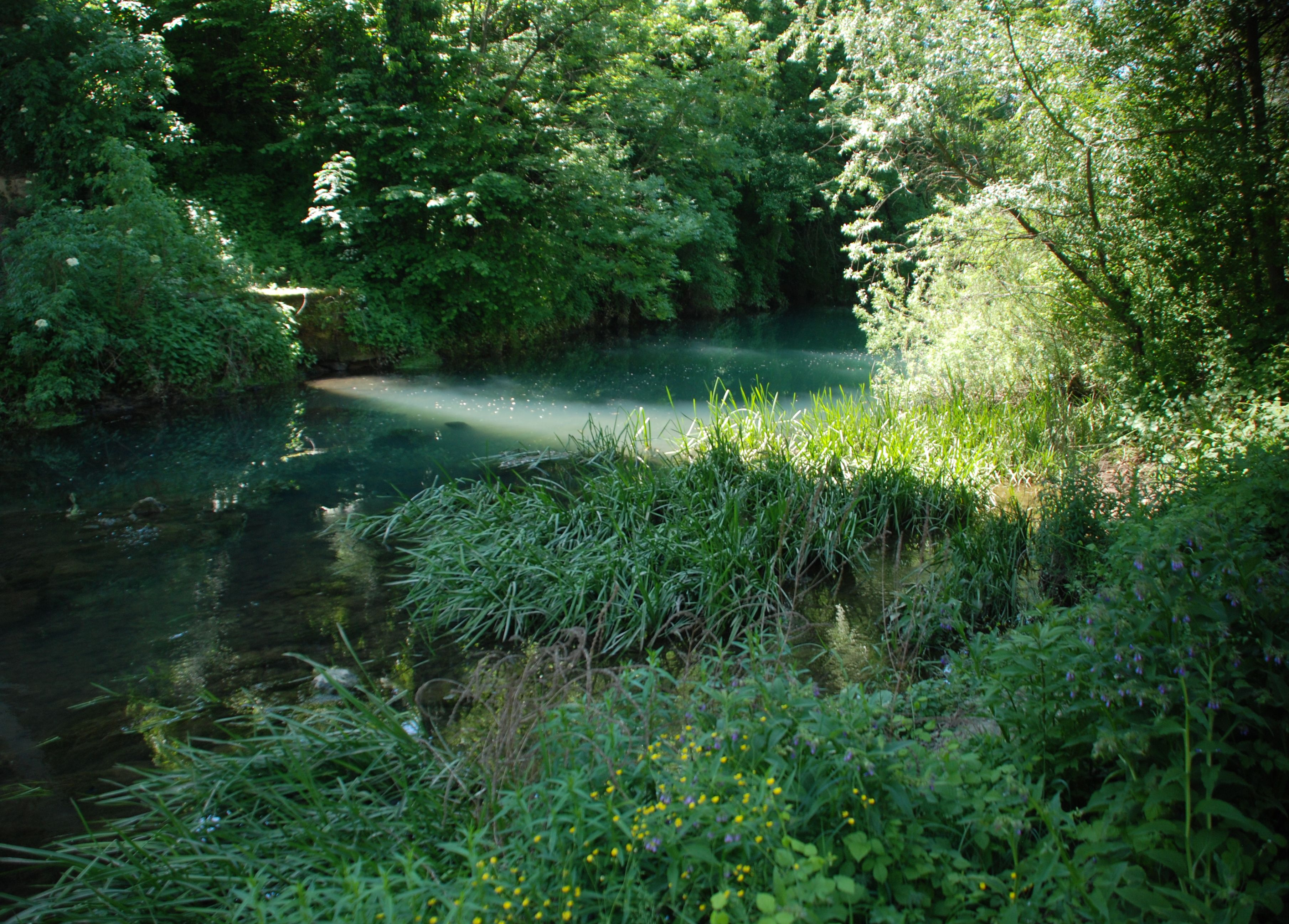 Dobličica Creek under the bridge in Črnomelj, White Carniola (Slovenia), before its confluence with the Lahinja.